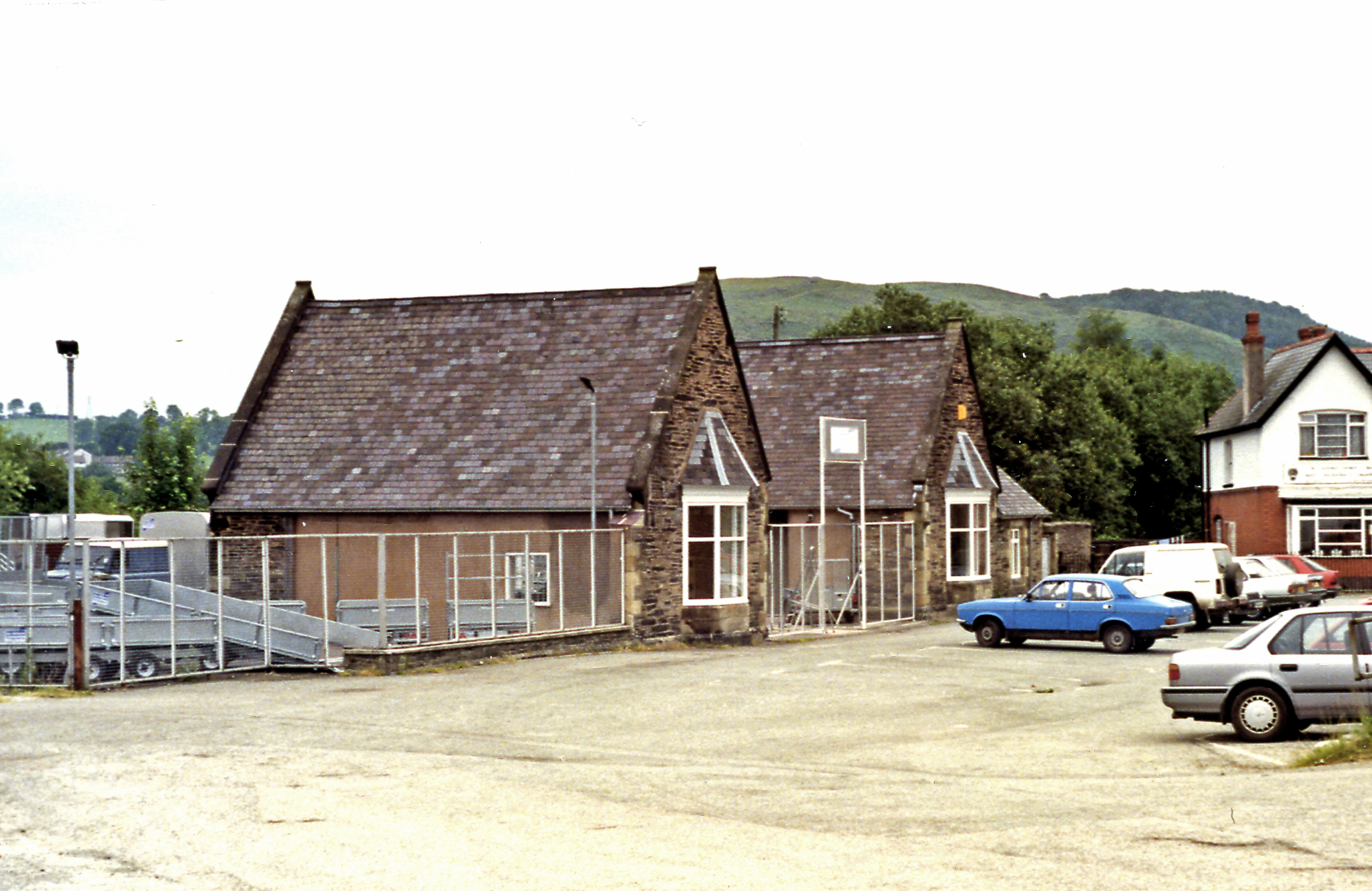 Corwen station, exterior 1992. View NE, towards Llangollen and Ruabon on the ex-GWR line, Rhyl on the ex-LNW branch: ex-Great Western Ruabon - Llangollen - Dolgellau - Barmouth line, junction of ex-London North Western line from Rhyl via Denbigh. The heritage Llangollen Steam Railway is expected to reach here by 2014